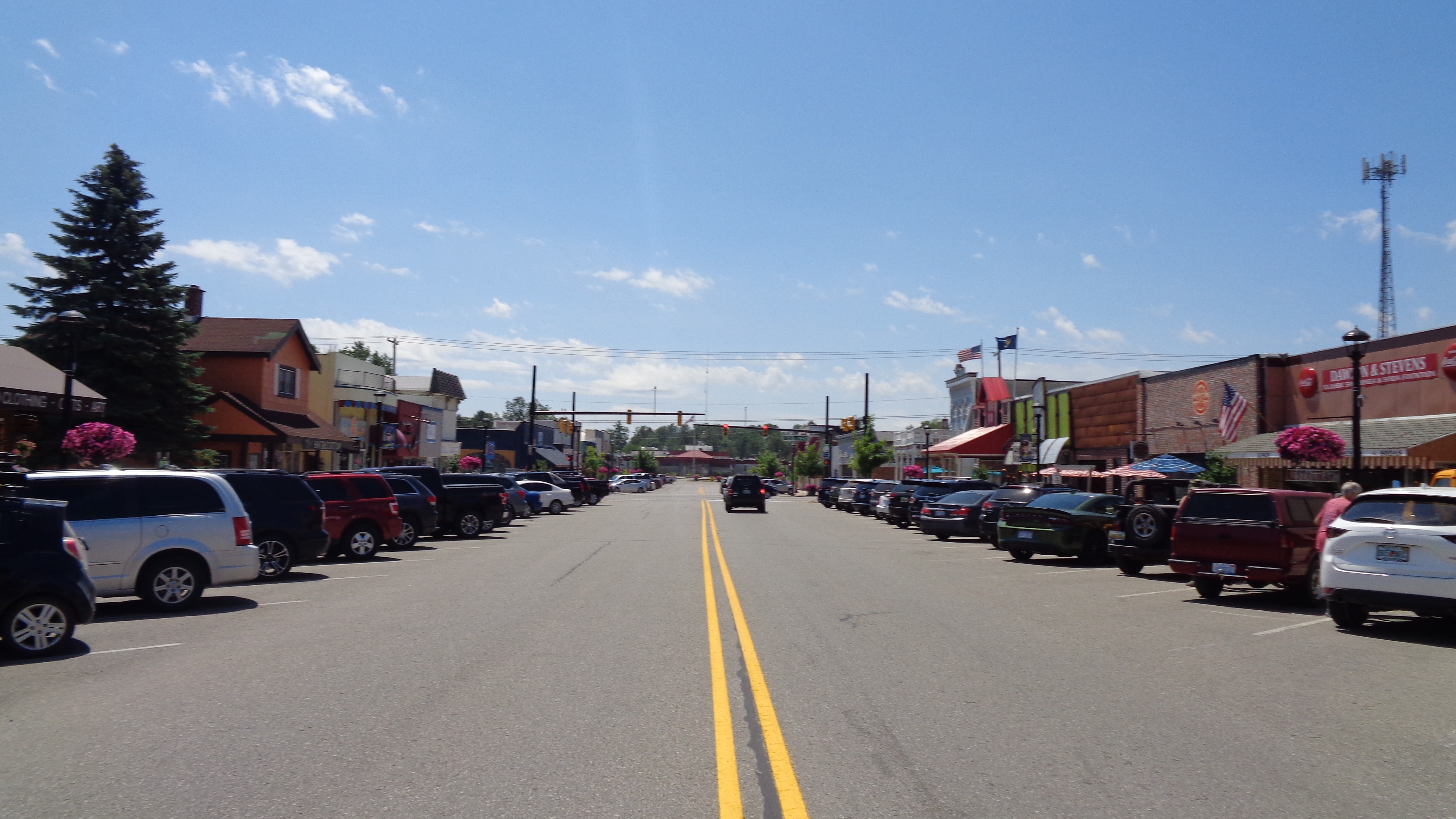 Depicted place: Grayling